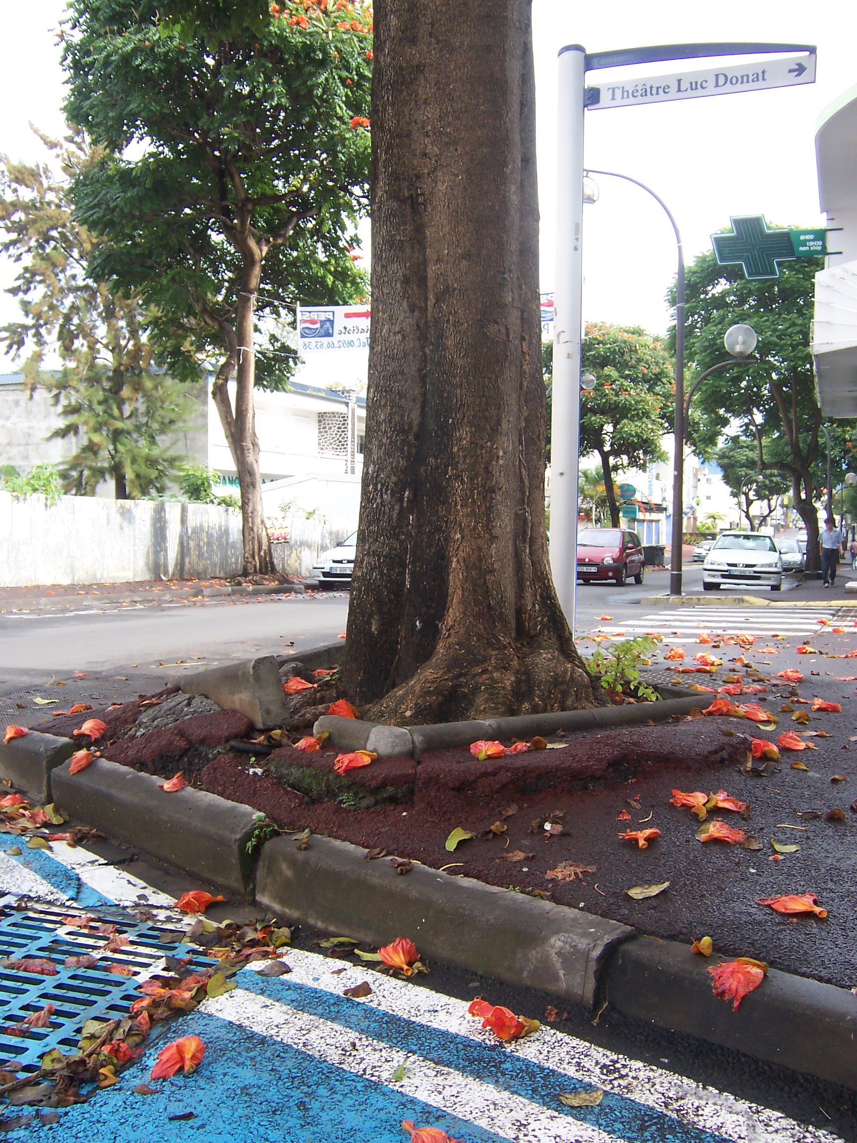 disorders on sideways and curbs caused by the roots of Spathodea campanulata